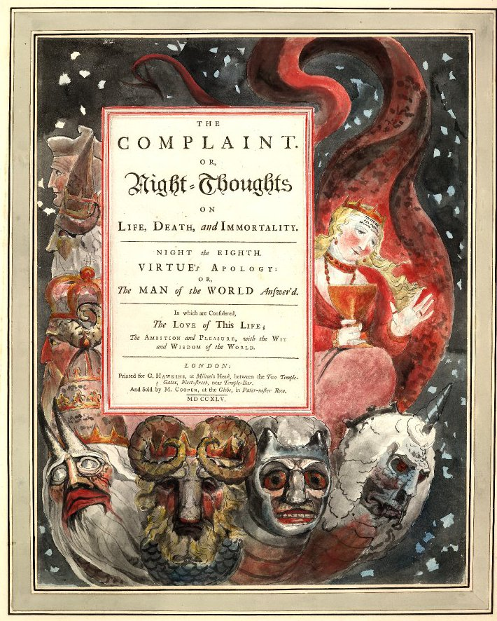 Night Thoughts Blake watercolor VIII title Object print study; drawing Museum number 1929,0713.174 Description Night VIII, title page, 'Virtue's Apology; or the Man of the World Answer'd', 1745, illustration to Young's 'Night Thoughts'; whore of Babylon riding seven-headed beast, starry night sky beyond. c.1795-7 Pen and grey ink, with grey wash and watercolour, over graphite; page of text mounted on drawing Verso: Night VIII, page with no text; two tiny angels, one with child seated on giant apple. c.1795-7 Pen and grey ink, with grey wash and watercolour, over graphite; page mounted on drawing More Producer name Drawn by: William Blake School/style British Date 1795-1797 Materials paper Technique drawn Dimensions Height: 420 millimetres Width: 325 millimetres (approx) Inscriptions Inscription Content Inscribed and on mount with number Verso: inscribed on mount with number